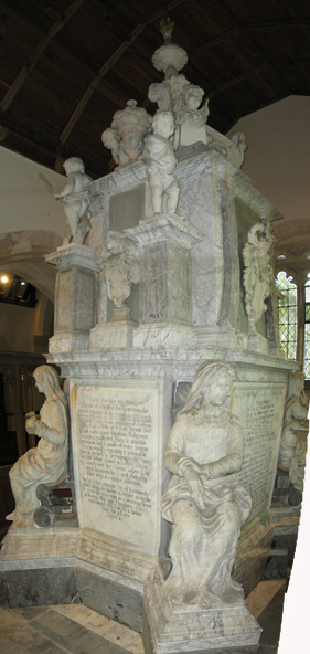 Monument to Sir Henry Furnese, All Saints church, Waldershare Erected by his son Robert Furnese, this elaborate monument has several 'occupants'. Each side of the monument carries a lengthy description to all the other family members also interred, see separate images for more information.